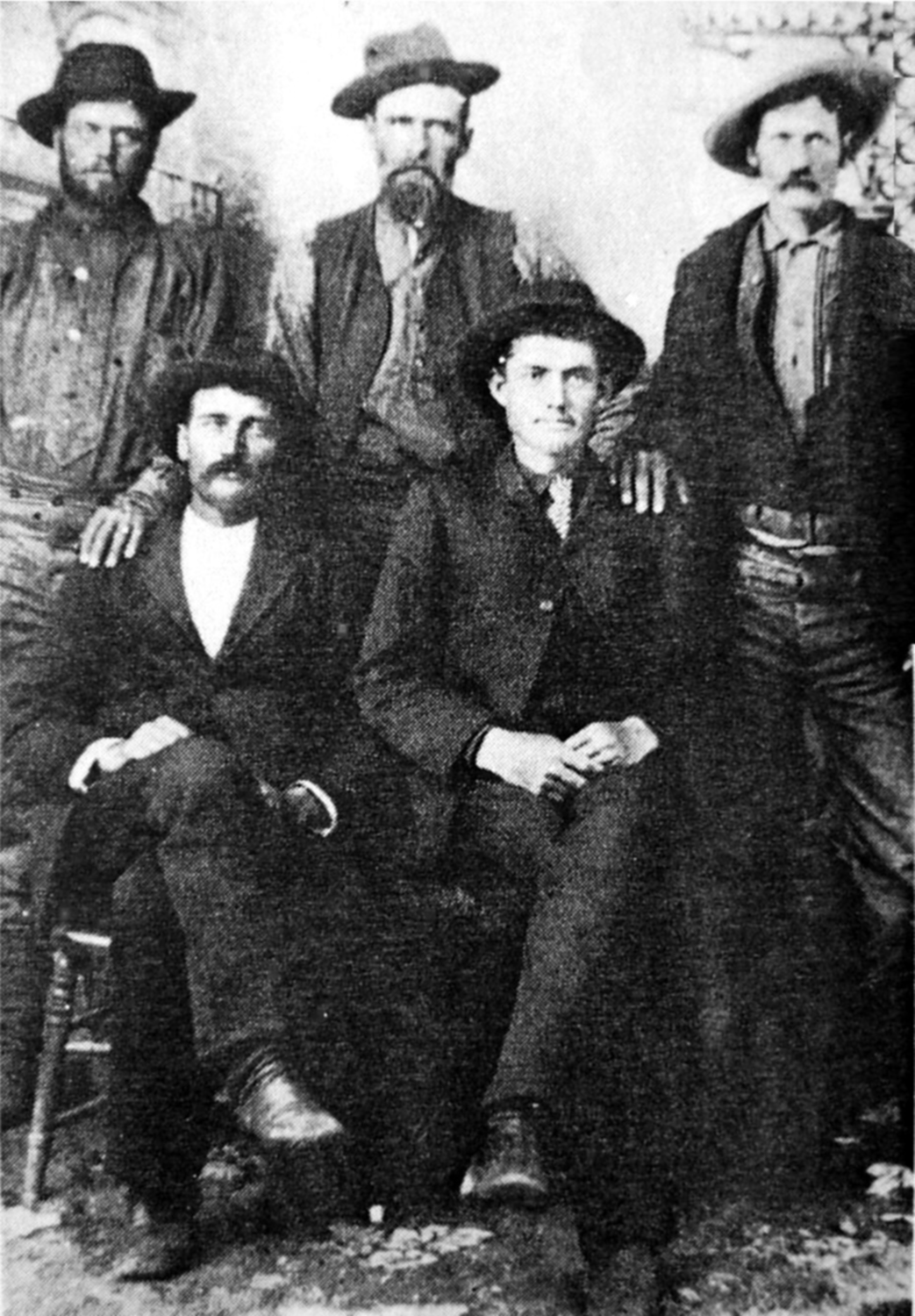 This image was believed to be taken in 1863. The individual shown in this picture are the sons of Levi Ward Hancock and himself. These individuals are Ether, Levi, Levison, Solomon and Samuel.